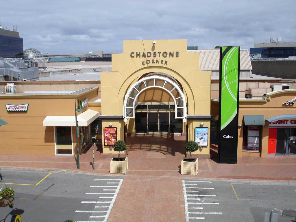 Entrance to Chadstone Place